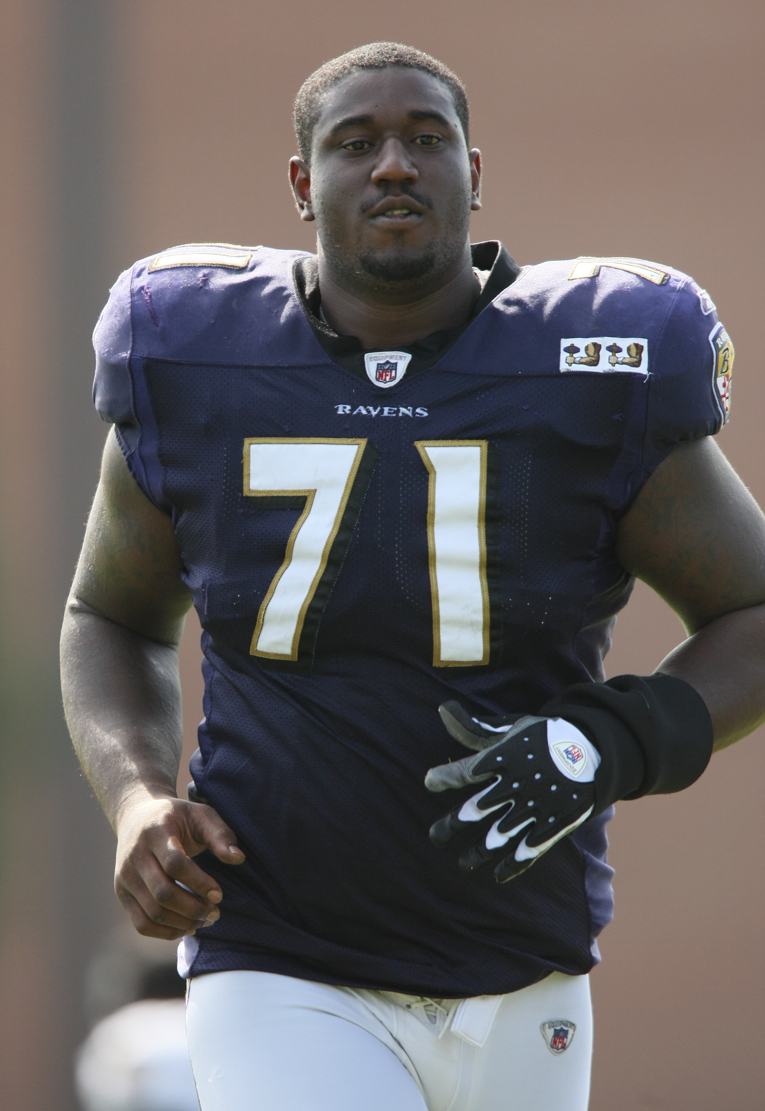 Baltimore Ravens offensive lineman Jared Gaither during training camp on August 20, 2009.